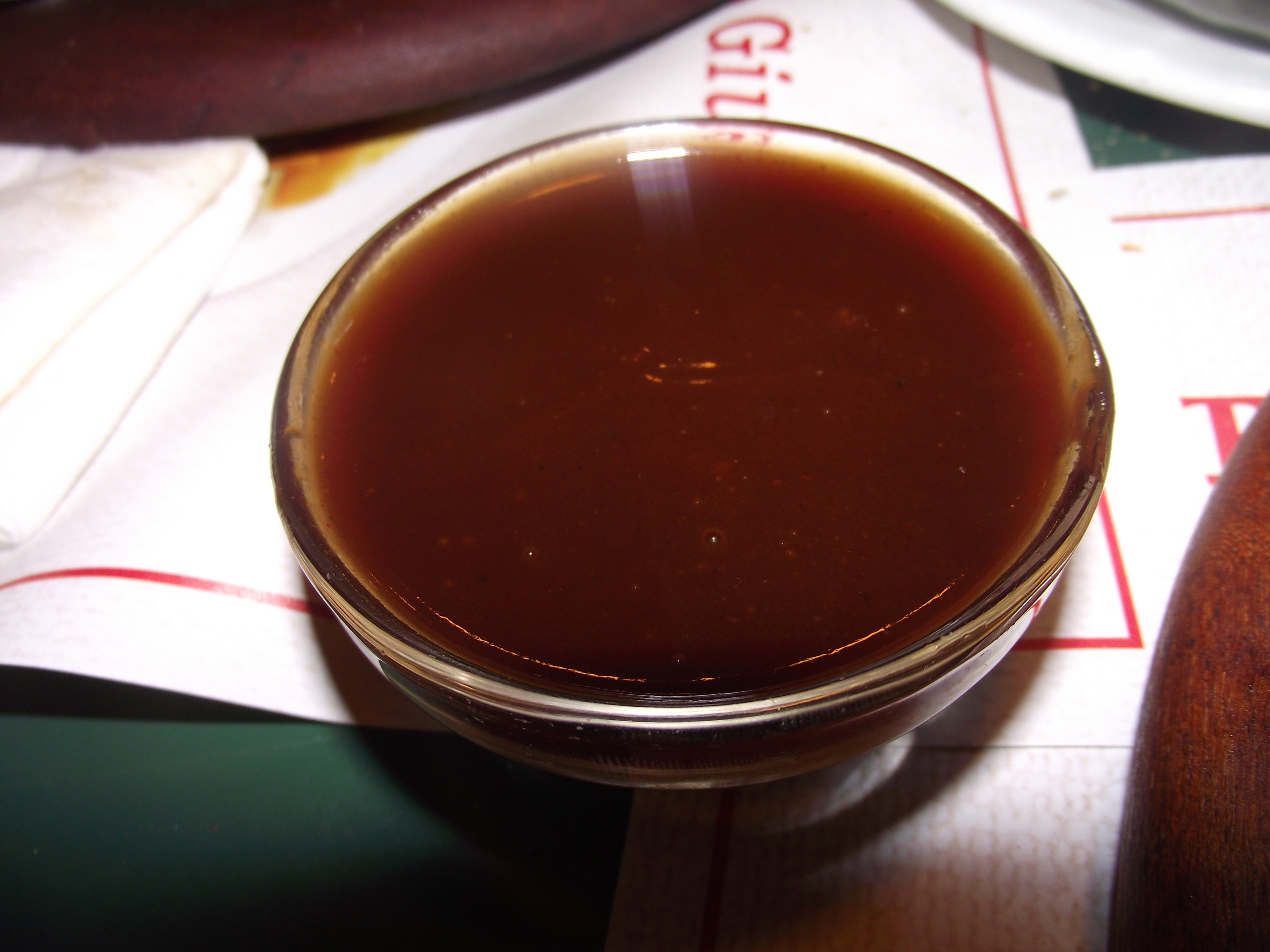 Barbecue sauce